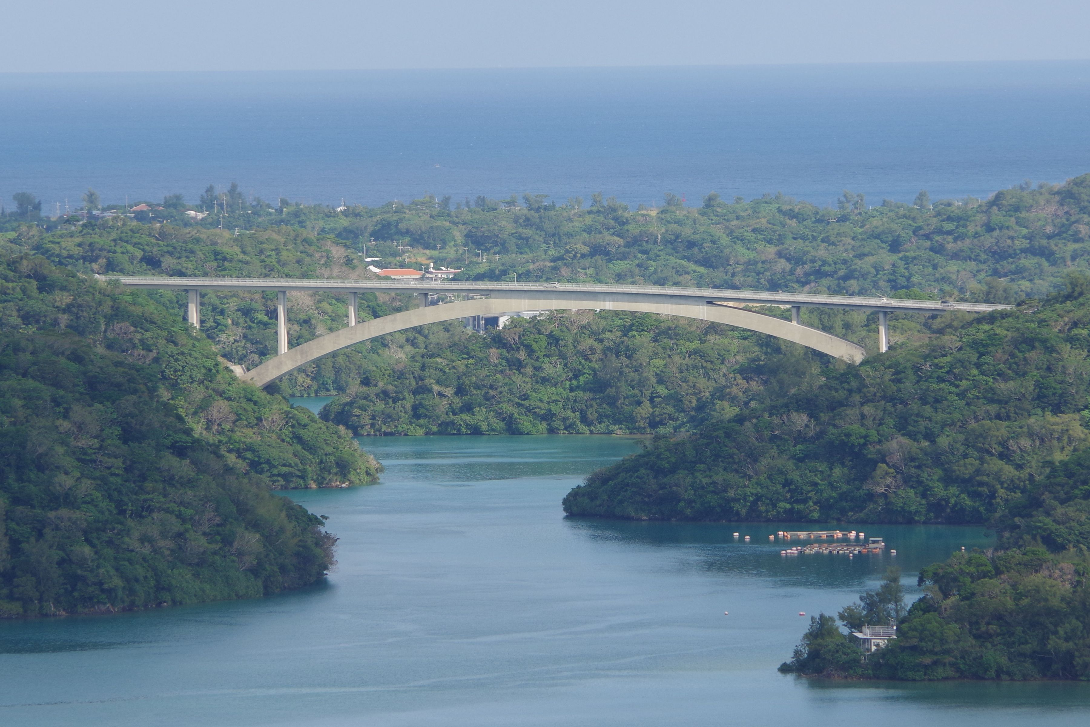 Warumi Bridge seen at the Arashiyama Observatory, the northern Okinawa Island.